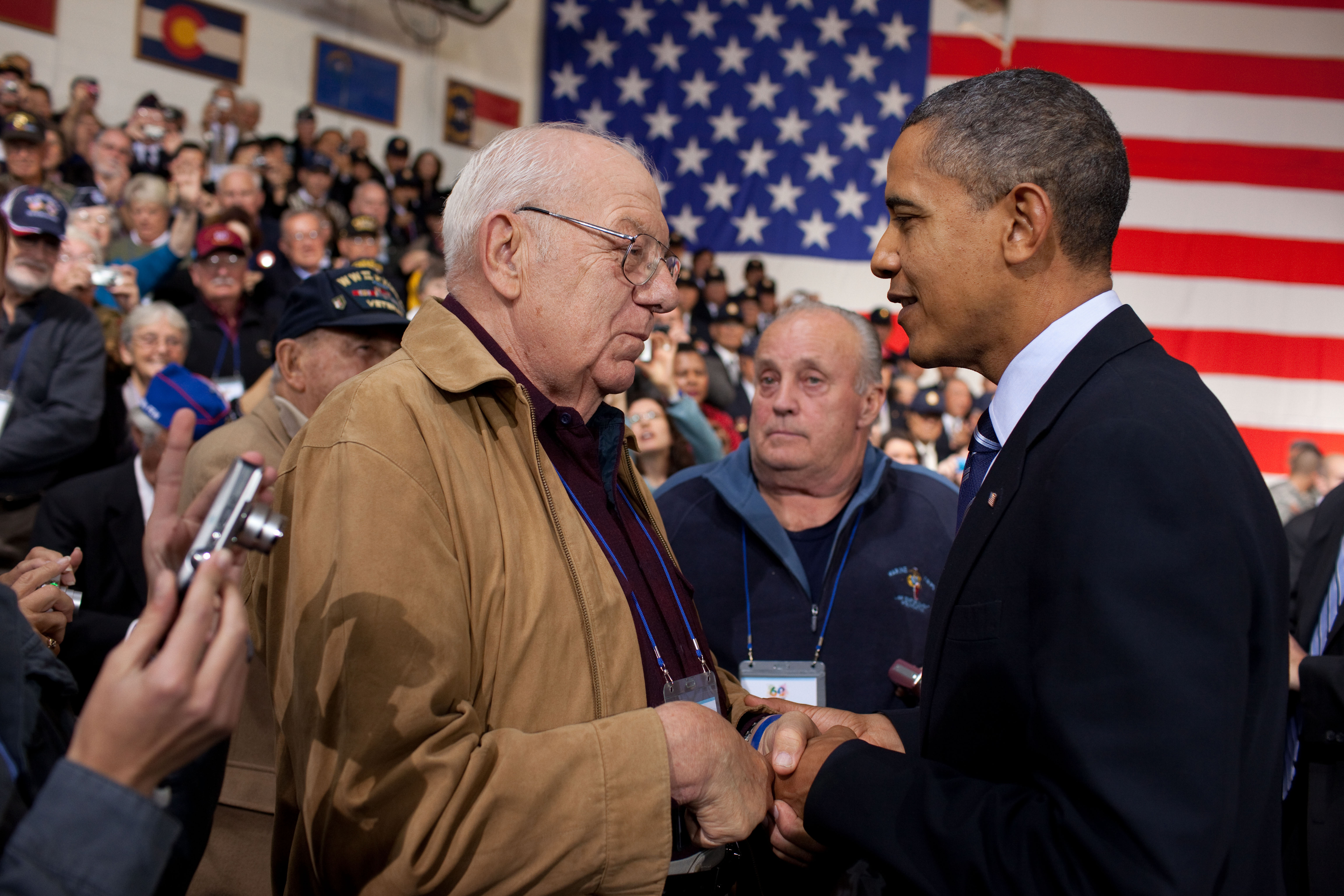 President Barack Obama greets Korean War veteran Private Hector Cafferata, who received the Medal of Honor for his heroic service at the Battle of Chosin Reservoir during the Korean War, following his remarks at Yongsan Garrison in Seoul, Korea, Nov. 11, 2010. (Official White House Photo by Pete Souza) This official White House photograph is in the public domain from a copyright perspective, so while restrictions such as personality or privacy rights may apply, in general, manipulations are allowed.